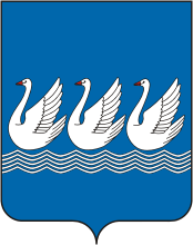 Sterlitamak (Bashkortostan), coat of arms